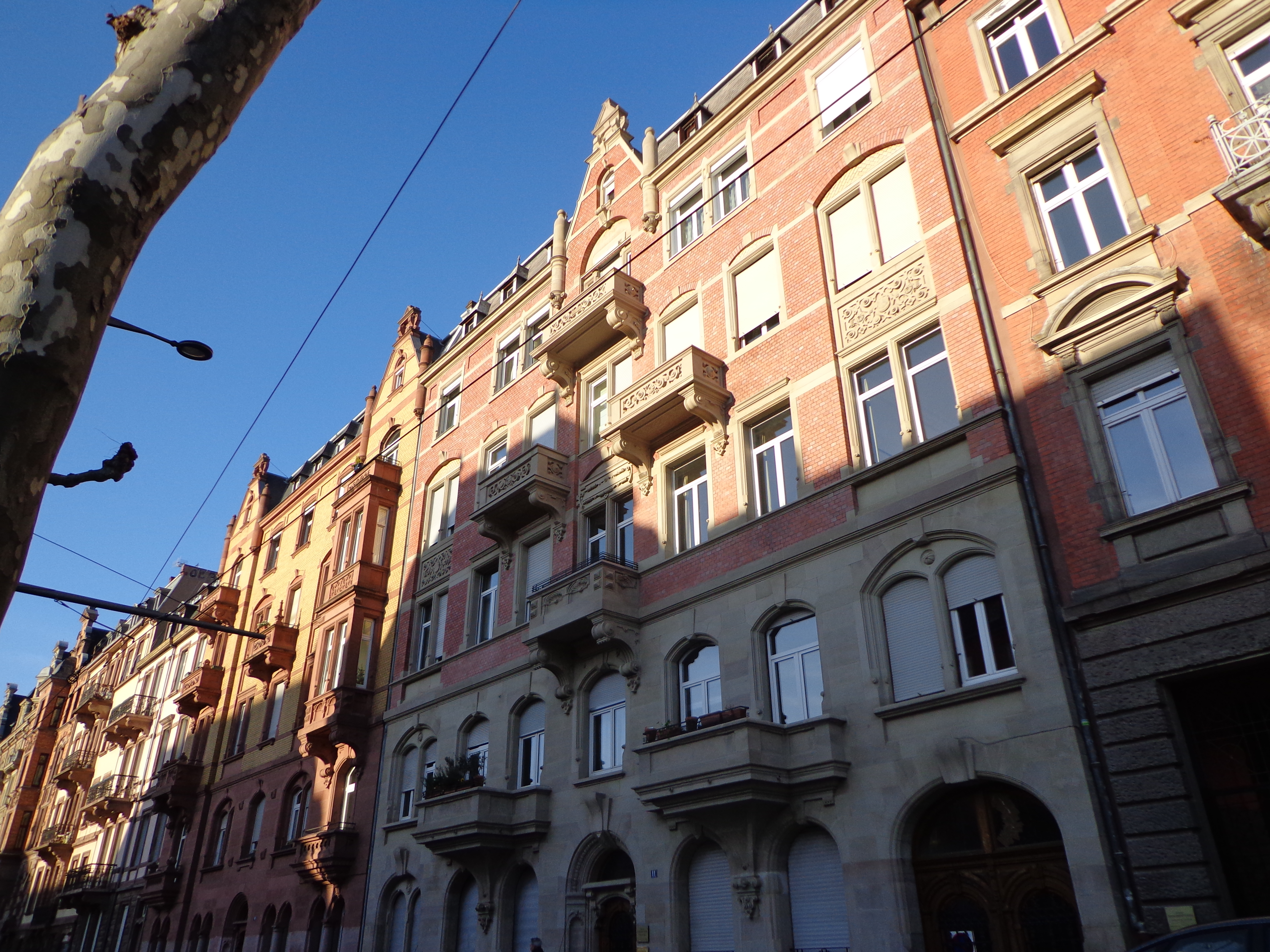 1893 residential buildings in Strasbourg